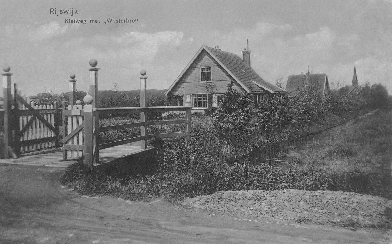 Westerbro aan de Sir Winston Churchilllaan voorheen Kleiweg. Prentbriefkaart ca 1915